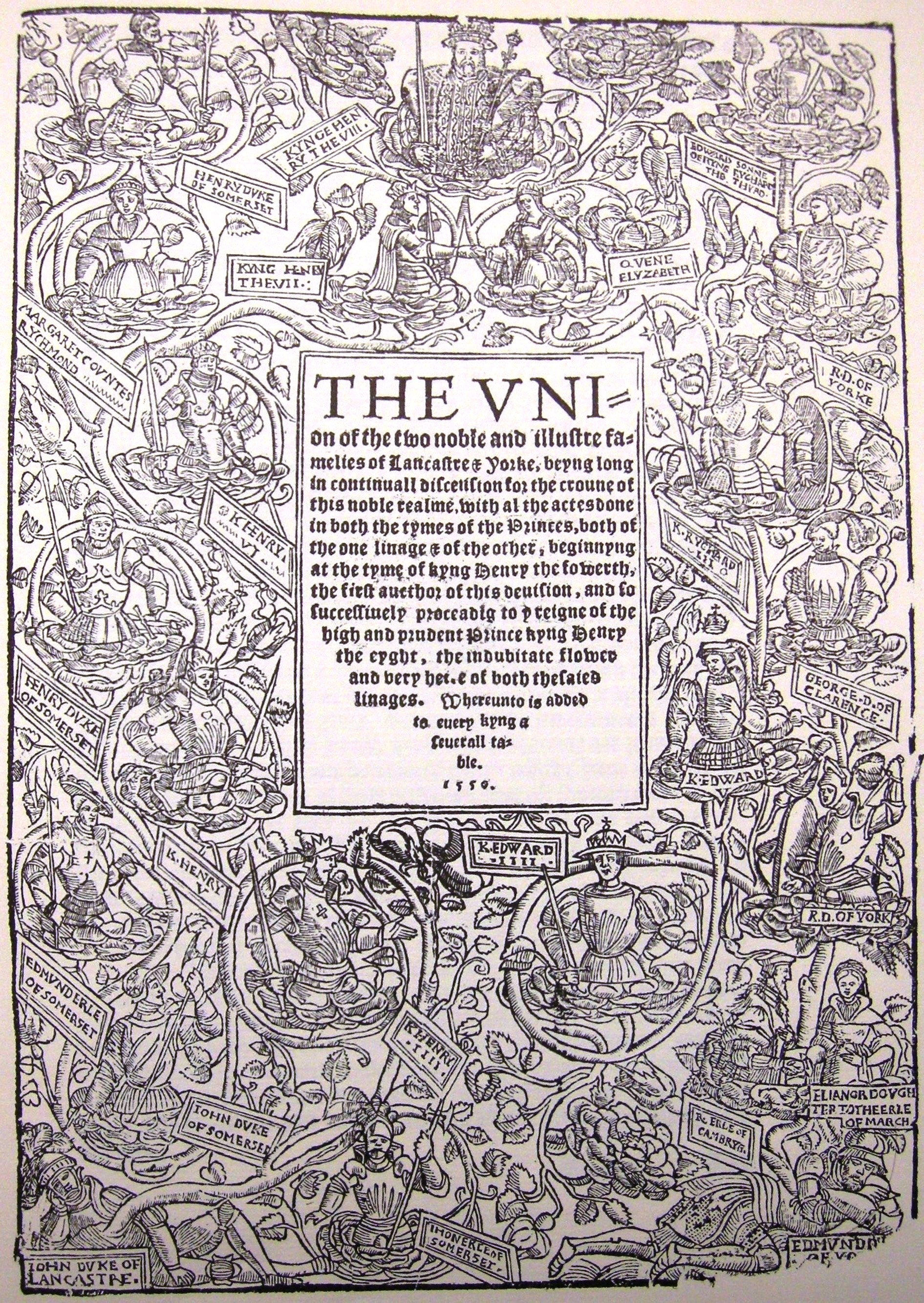 Edward Hall, The Union of the Two Noble and Illustre Families of Lancastre and Yorke (1550)